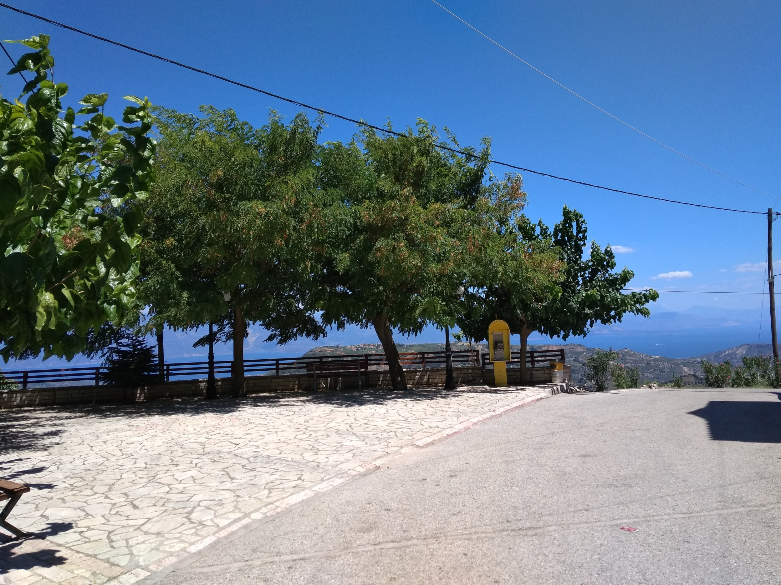 The small square in the centre of the village of Myrovrysi. Panoramic view to the Gulf od Corinth and the nearby hills.